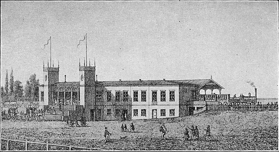 The first trainstation in Copenhagen.